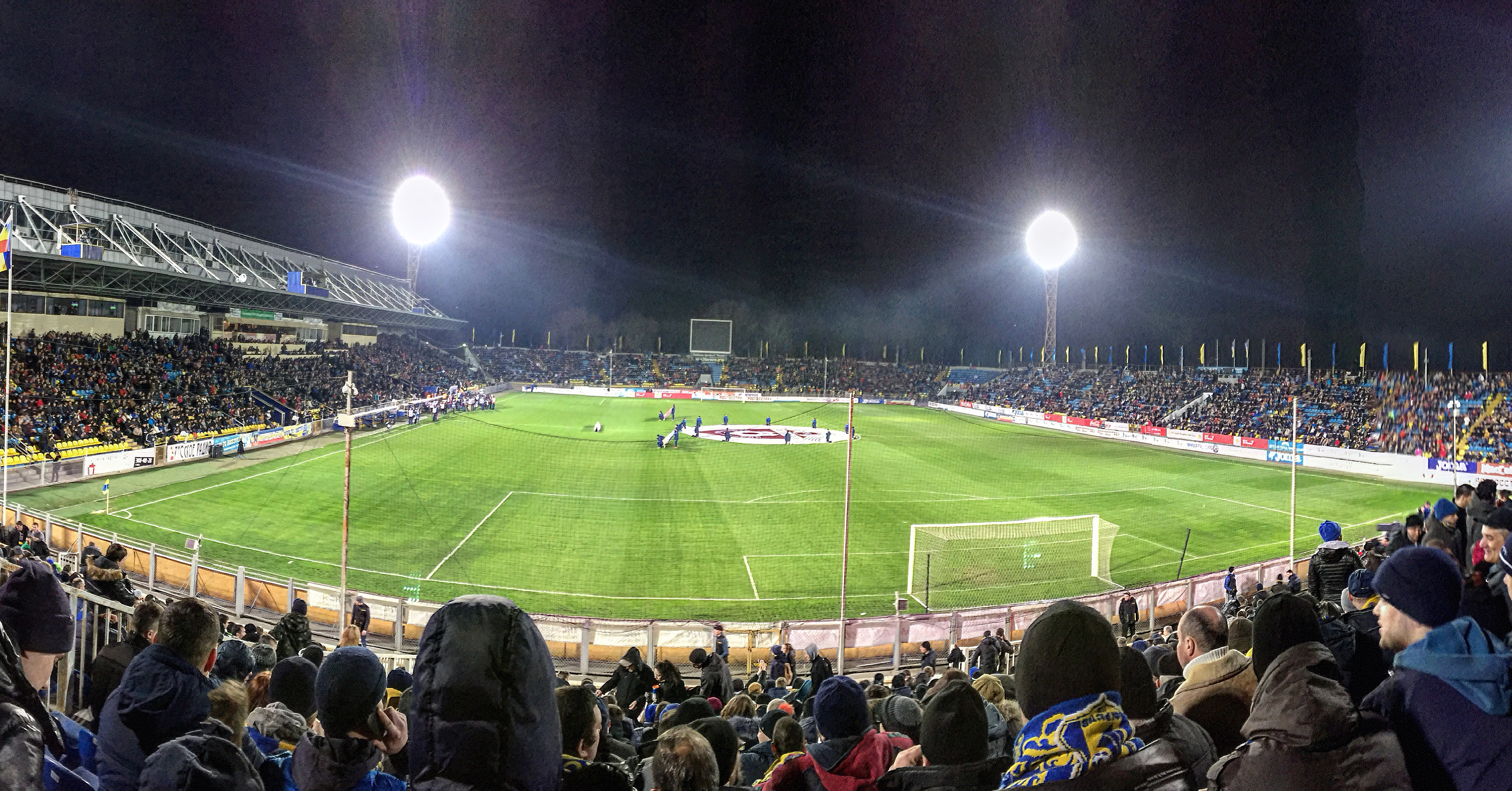 Stadium Olimp-2. Home arena of FC Rostov. March 2016